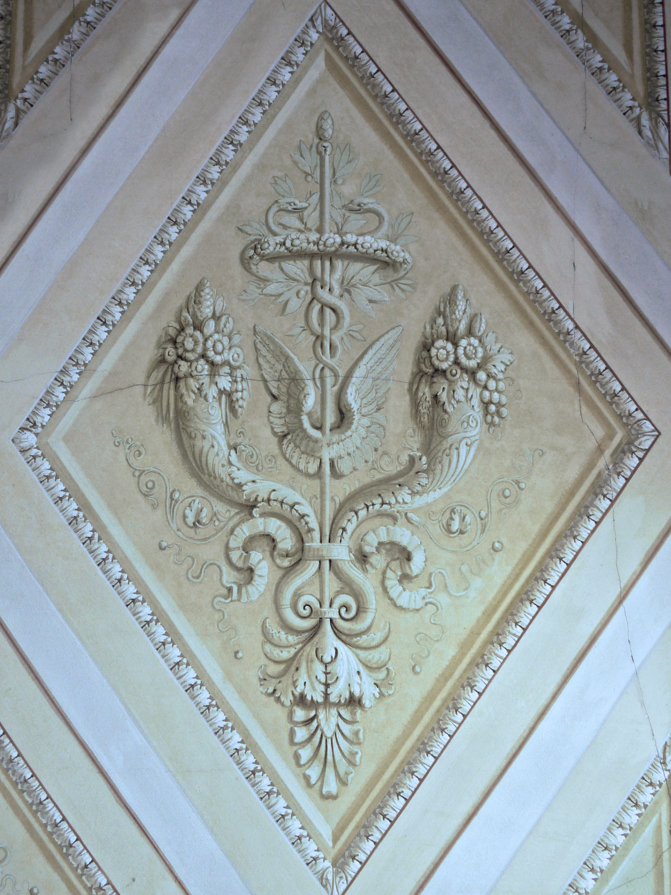 Villa Folco, Meolo. Affresco del piano nobile (part.)